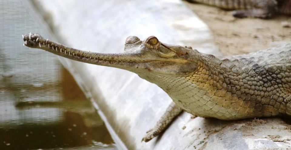 Picture Shot in Feb 2013 , in Kukrail Reserve Forest , Lucknow , India .